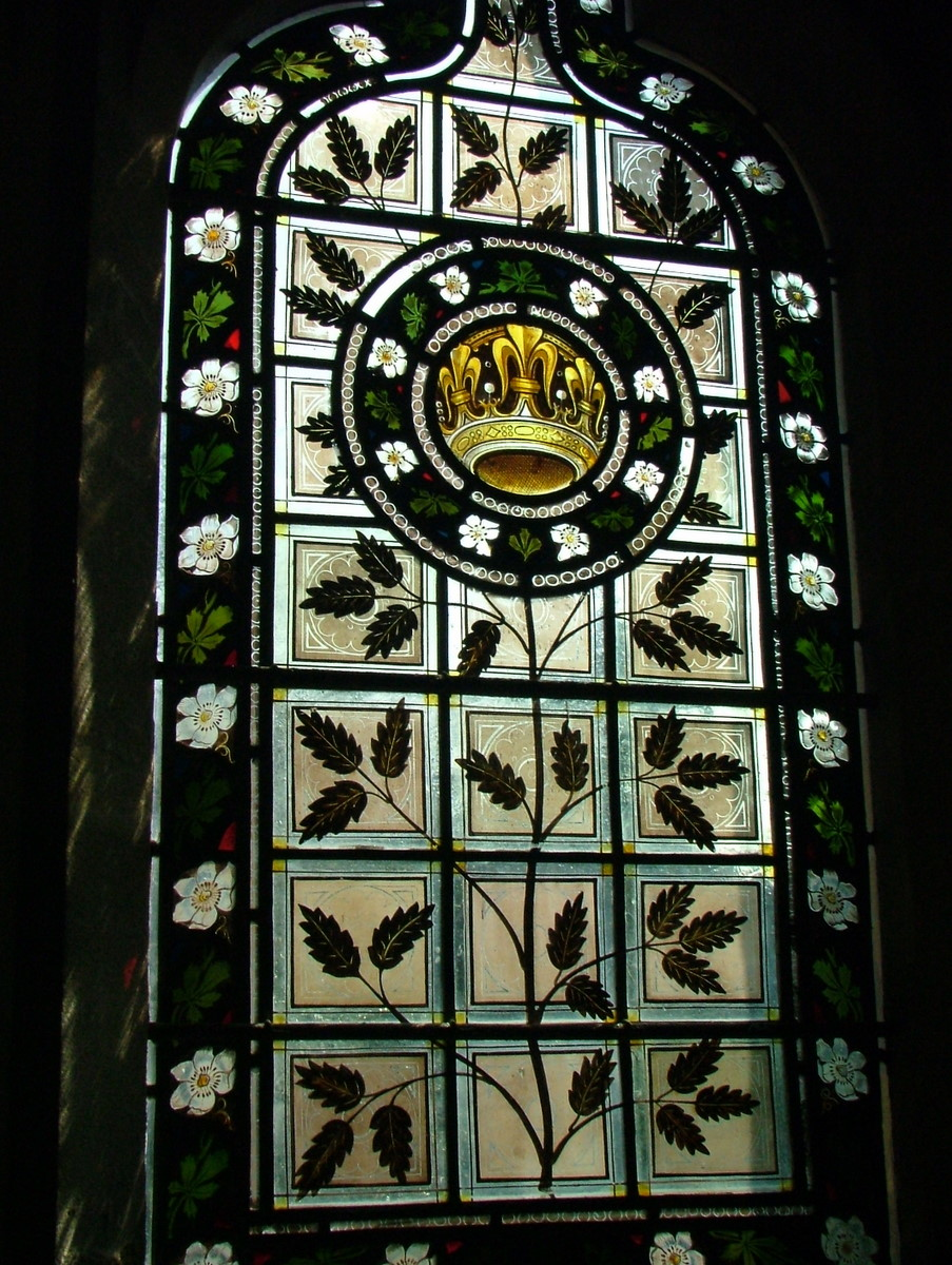 Window at Tyntesfield, North Somerset, England.